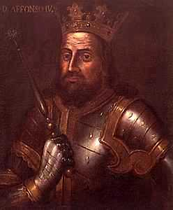 o rei